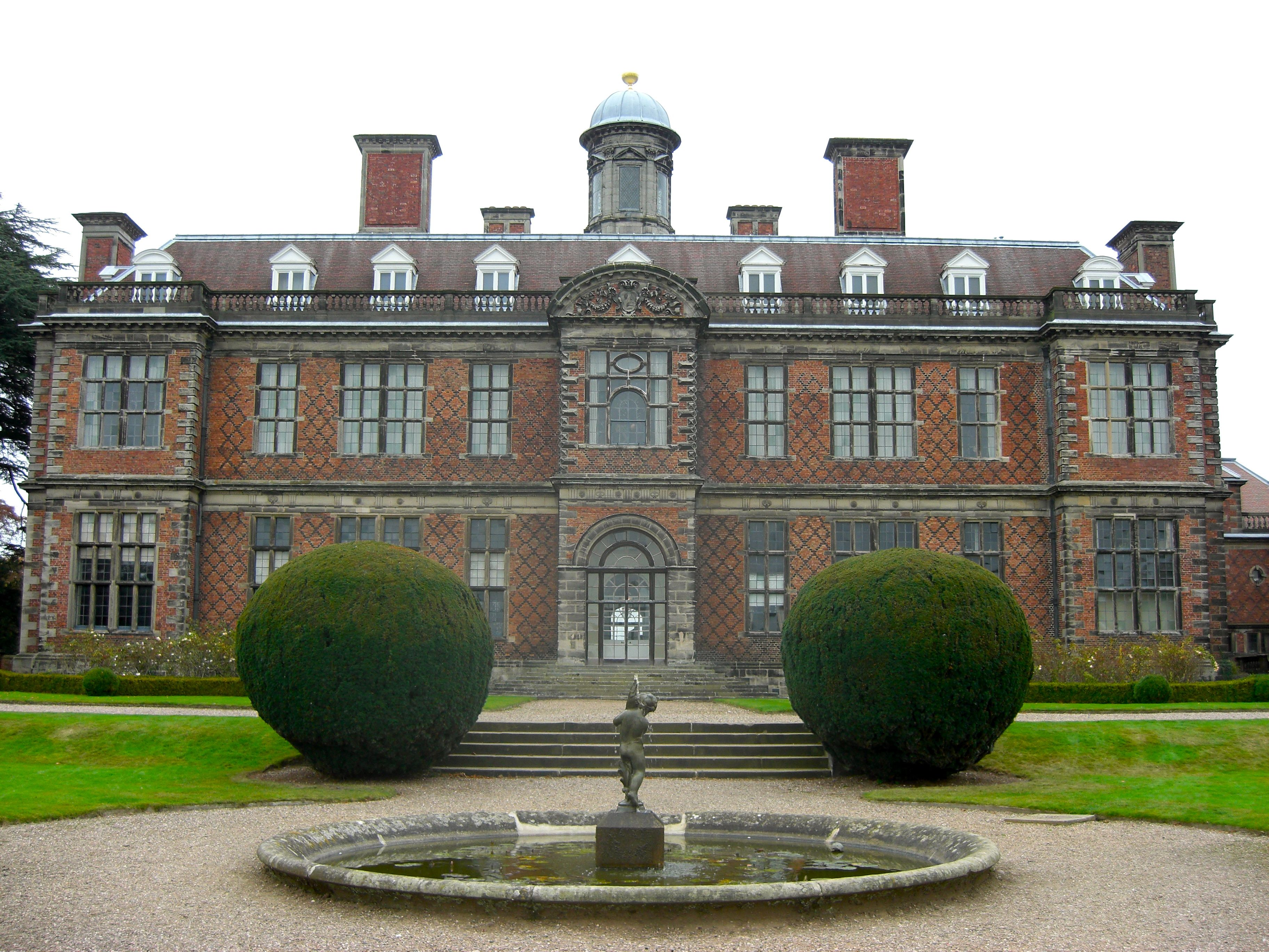 Sudbury Hall, Derbyshire - south front